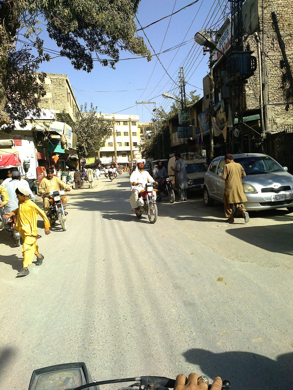 morning time all of the people a going to join their work